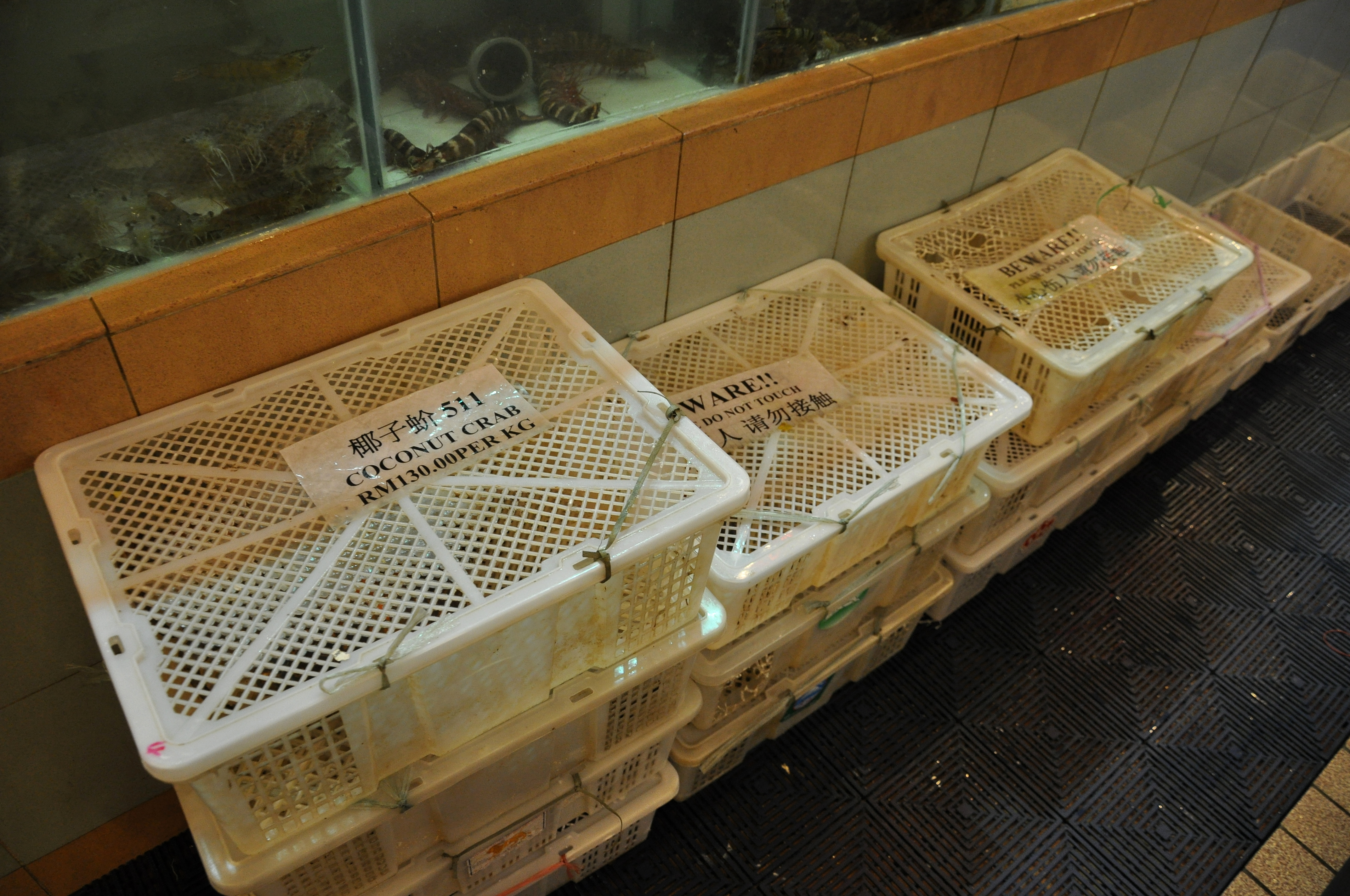 Coconut Crabs (Birgus latro) on display in plastic baskets at a Chinese restaurant in Kota Kinabalu, Sabah, Malaysia. Ready to be eaten...